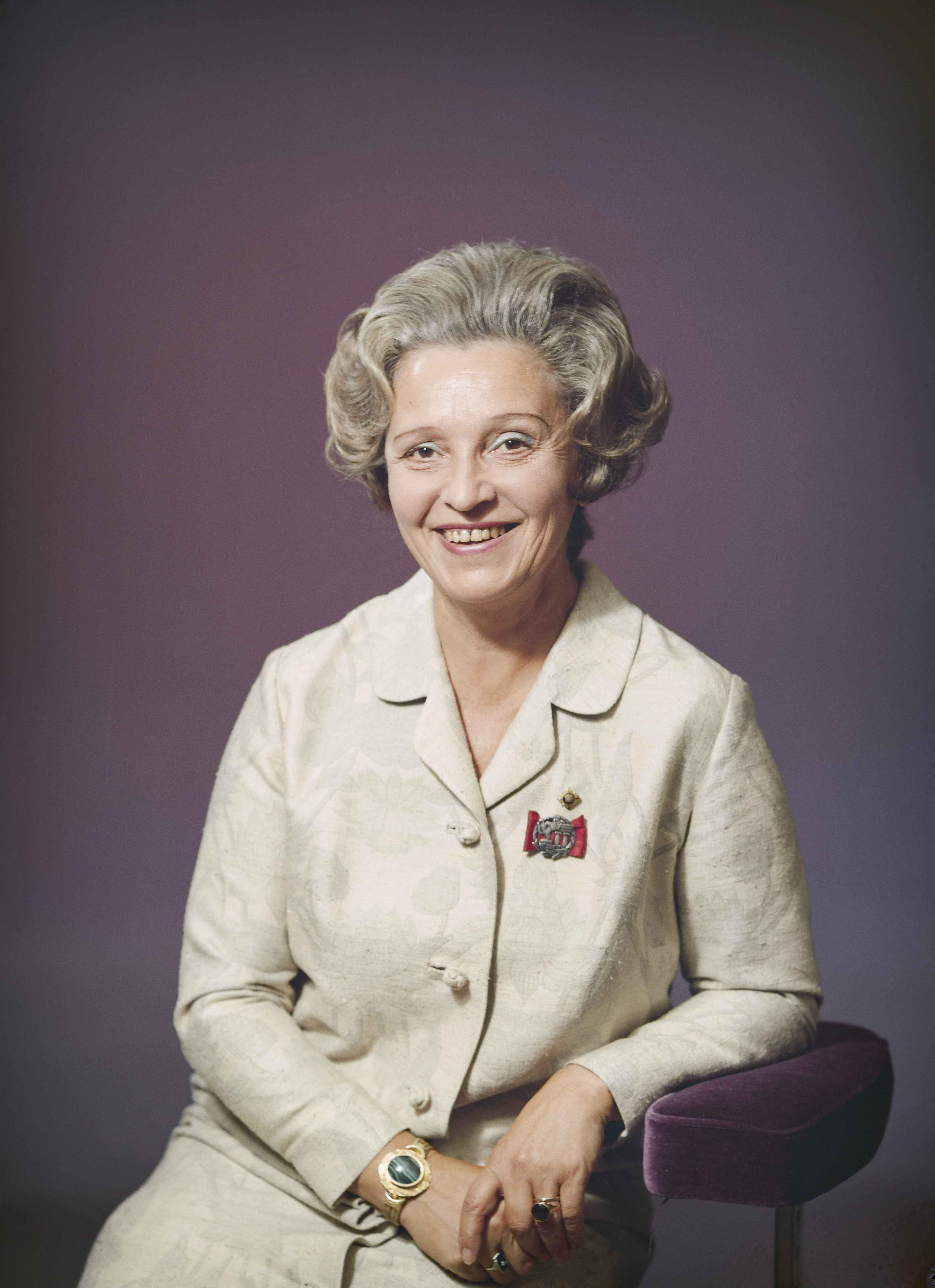 Photograph of the Finnish actor Ansa Ikonen (1913–1989).